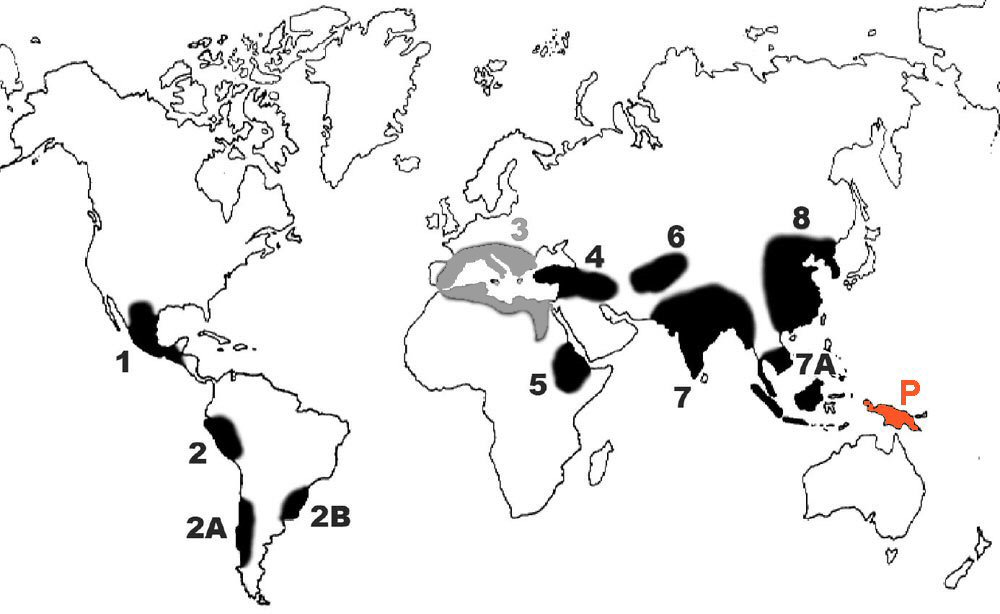 Centers of origin of domesticated plants identified by Vavilov, updated to show area 3 no longer regarded as a center, and Papua New Guinea (P) added.